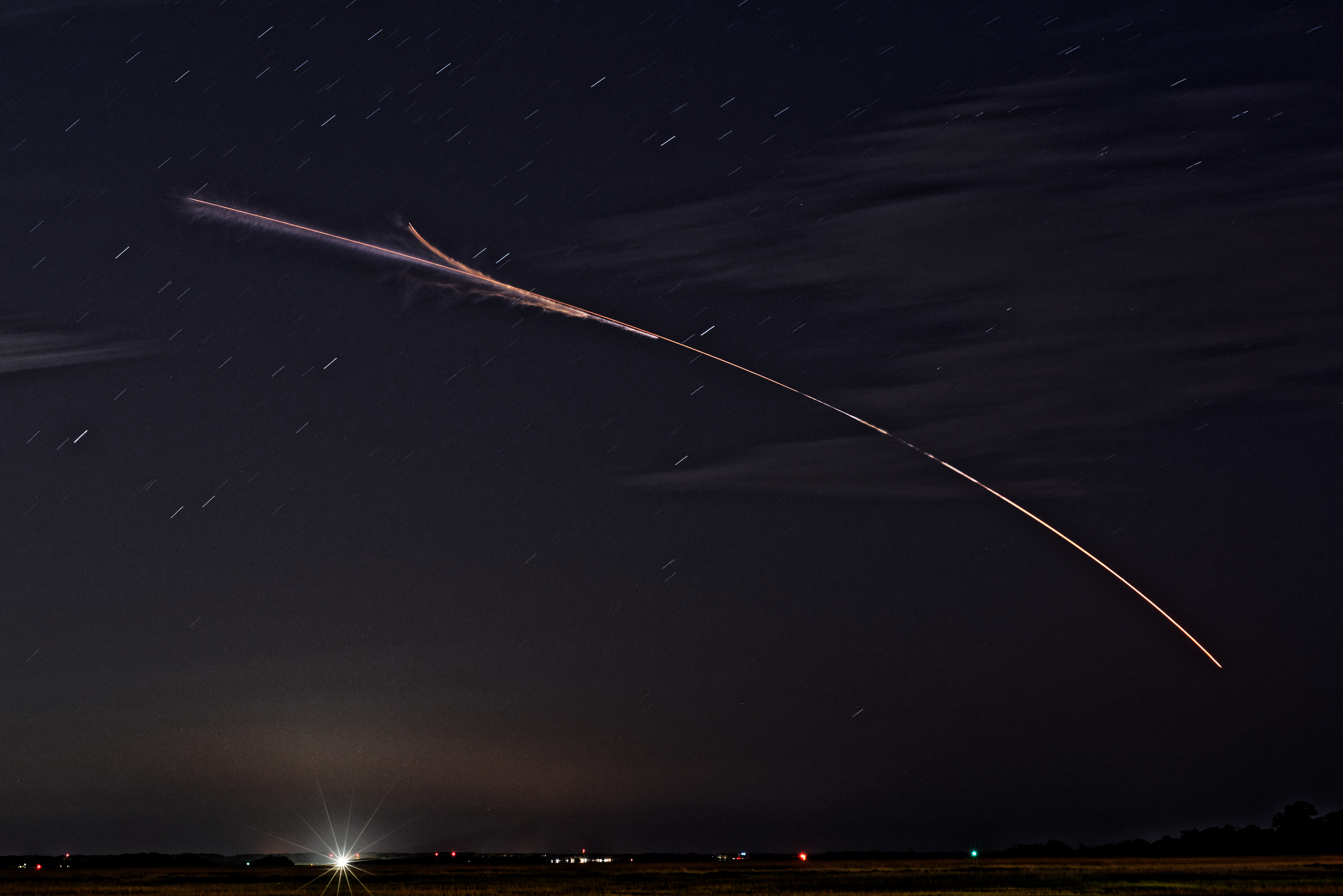 A 113-second exposure of the Falcon Heavy launch on June 25, 2019 - taken from 180 miles north of Cape Canaveral.